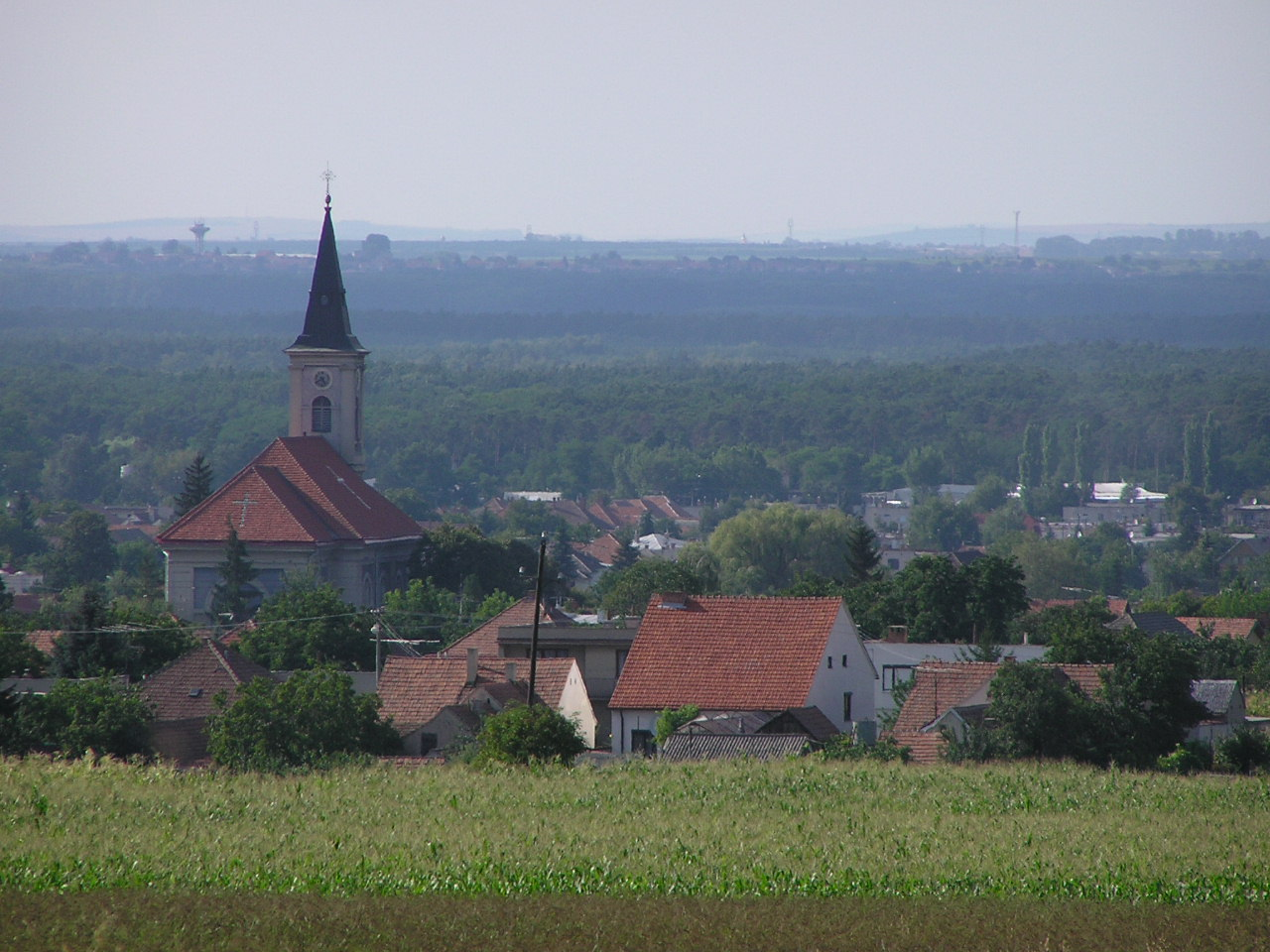 Gbely - catholic church